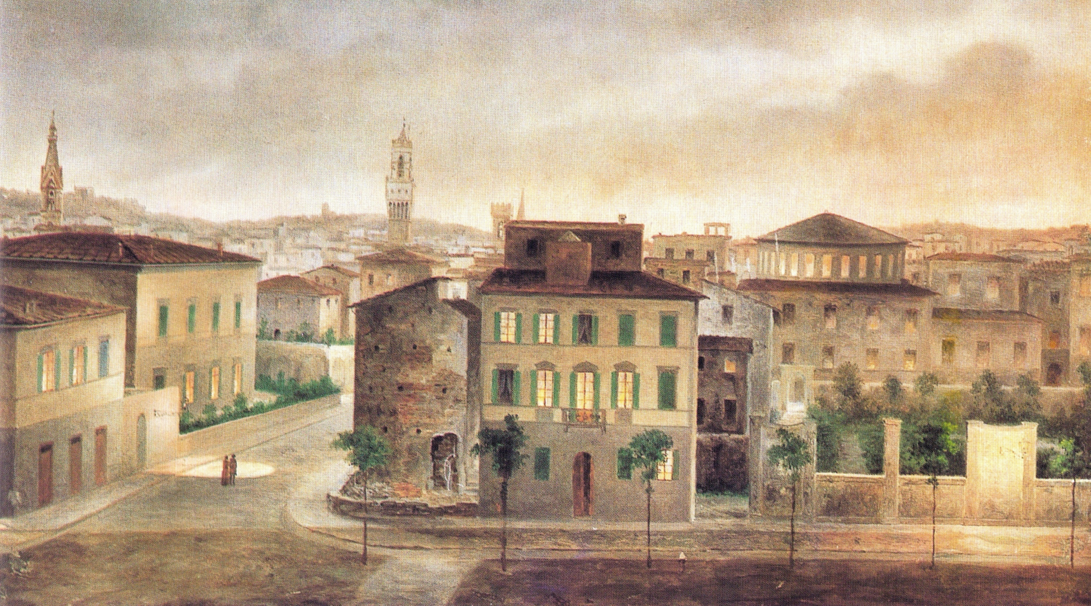 Teatro Umberto